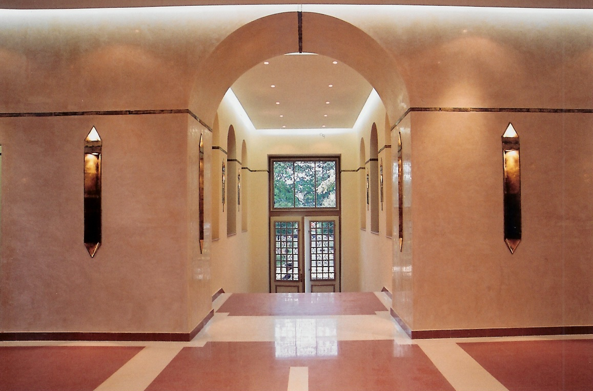 Corridors at the administrative department at UMFT